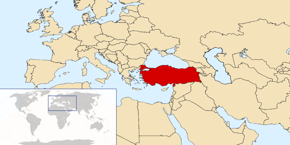 Country locator map for Turkey